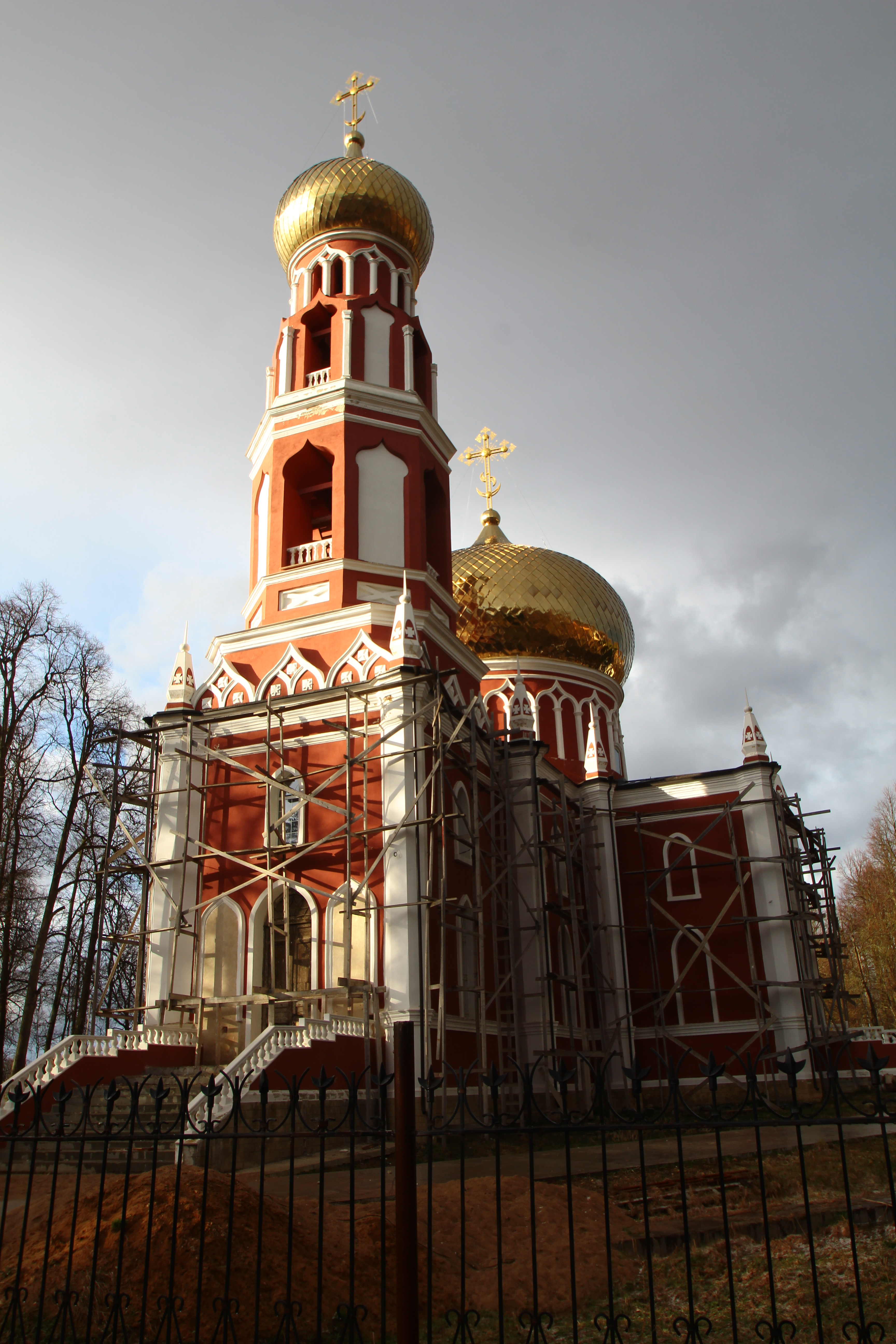 Church of the Assumption in Baryatino (Tarusa district) in 2017